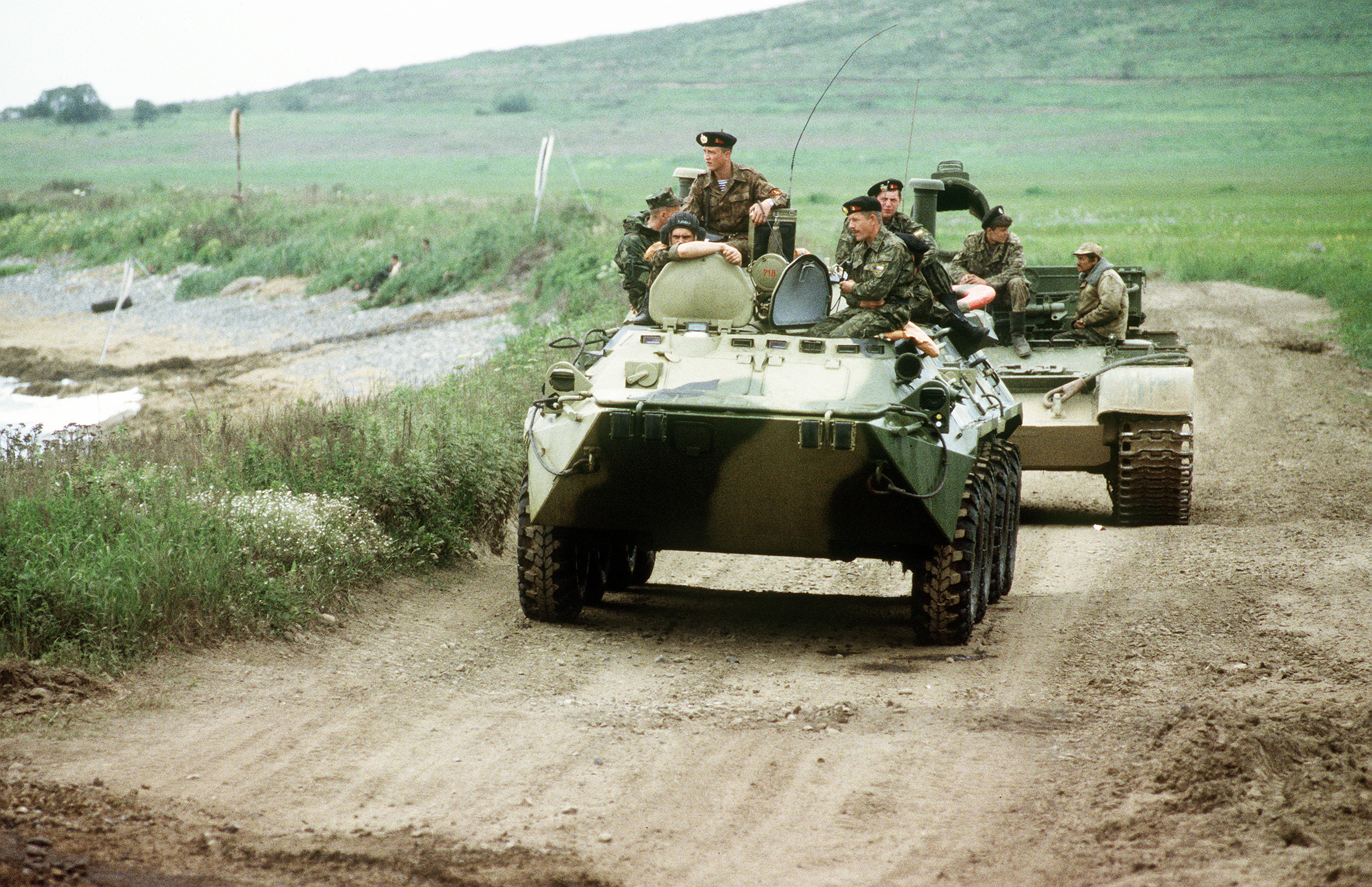 A Russian BTR-80 APC makes its way to the mock earthquake site near Vladivostok in Siberia, Russia during the combined American-Russian disaster relief exercise.